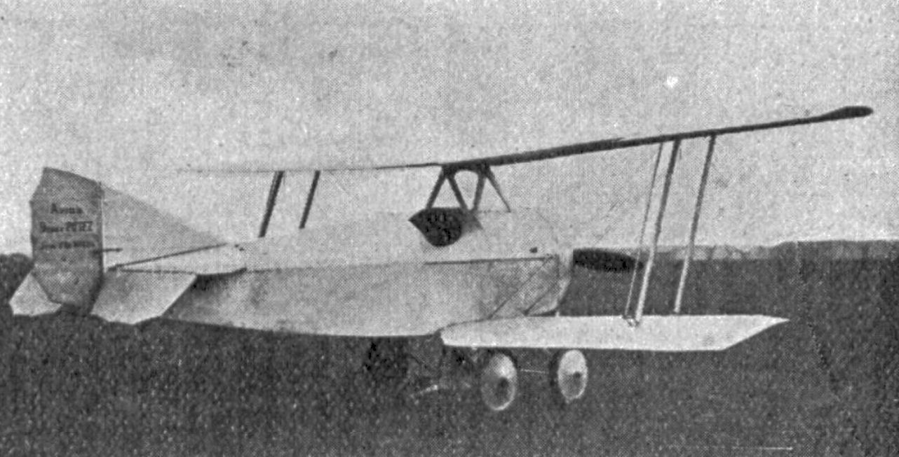 Potez VIII photo from L'Aerophile-Salon,1921